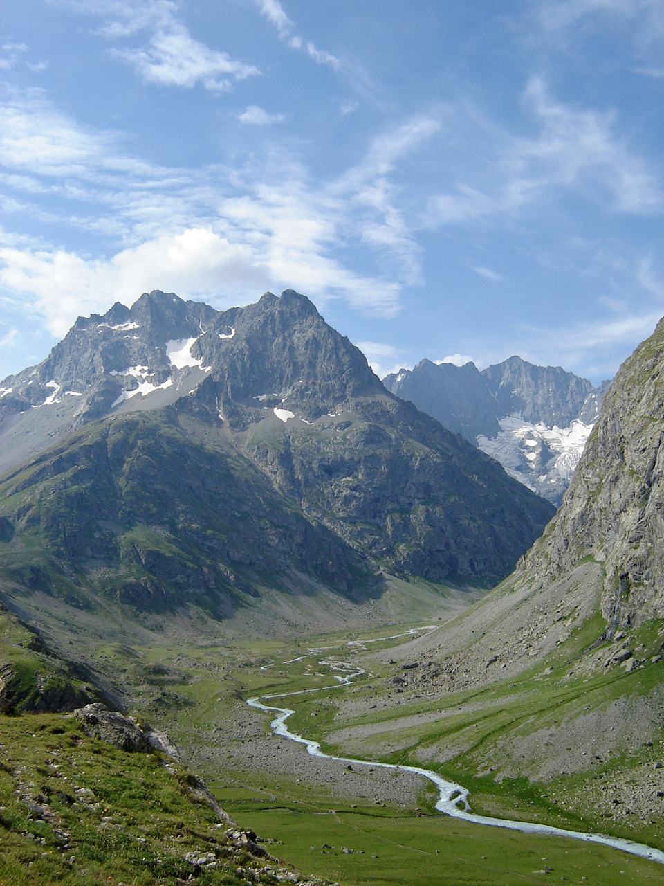 Chamoissière Pics and Romanche River, Écrins national Park, French Alps